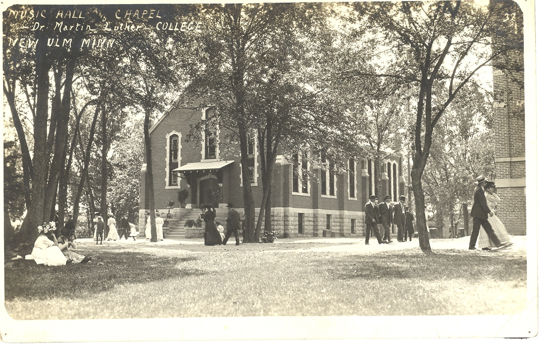 This is a photo of the Aula at Dr. Martin Luther College in New Ulm, MN, taken in 1911. The photo was taken on the day of its dedication. The building served originally as a chapel.